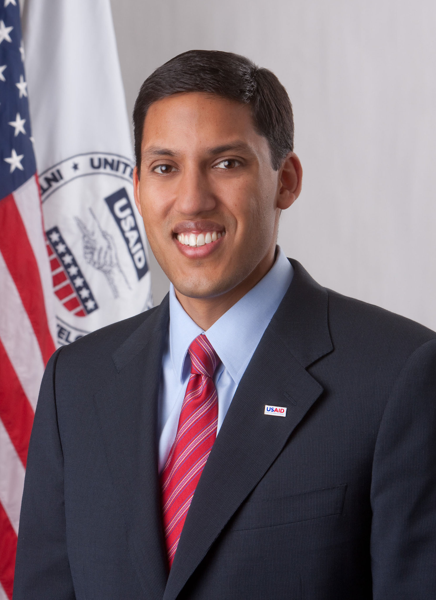 Official portrait of USAID Administrator Rajiv Shah.